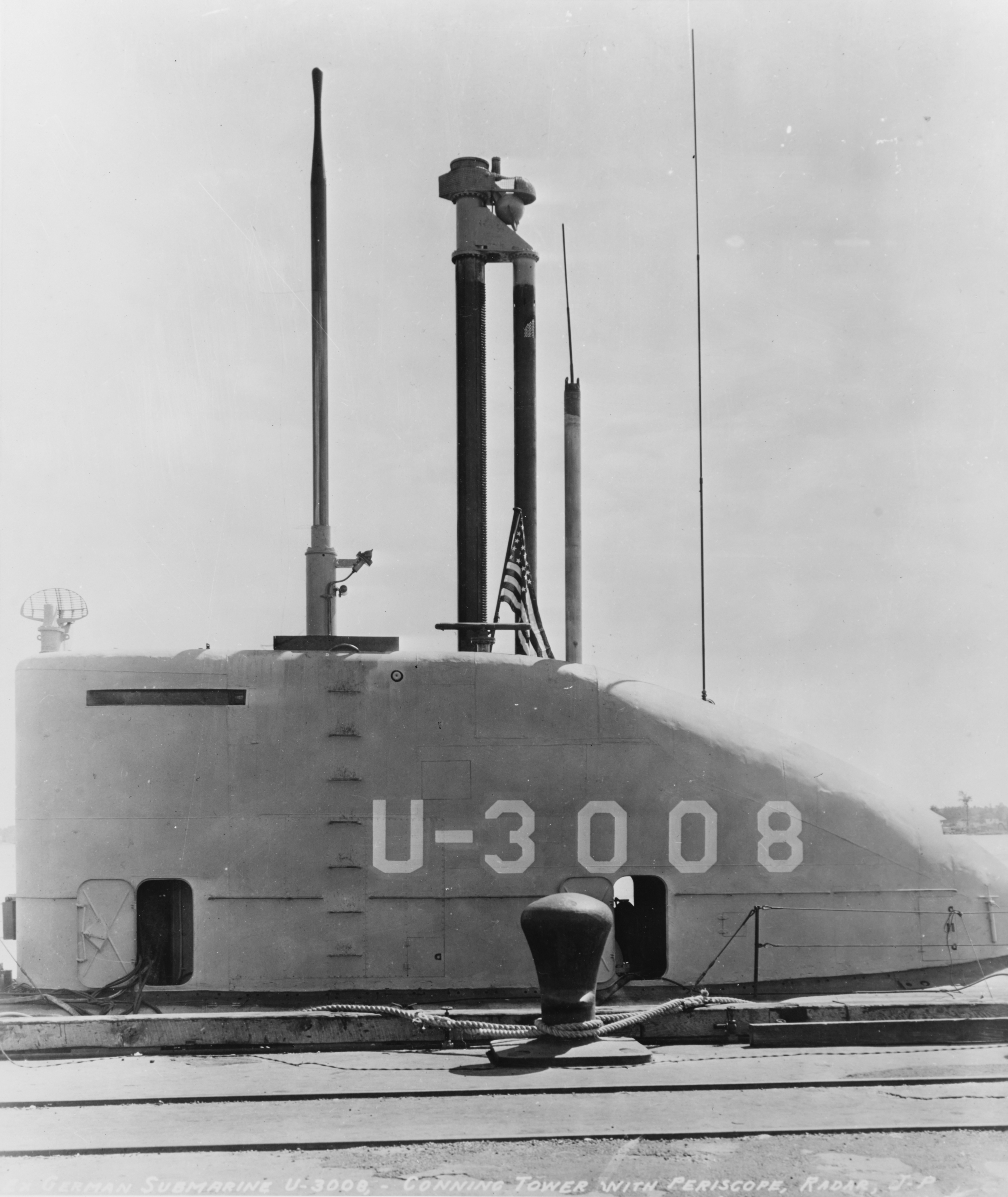 View of the port side of the U-3008's conning tower, showing periscope, snorkel and antennas raised. Taken at the Portsmouth Naval Shipyard, Kittery, Maine